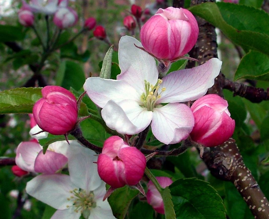 Apple Blossom, Tirol